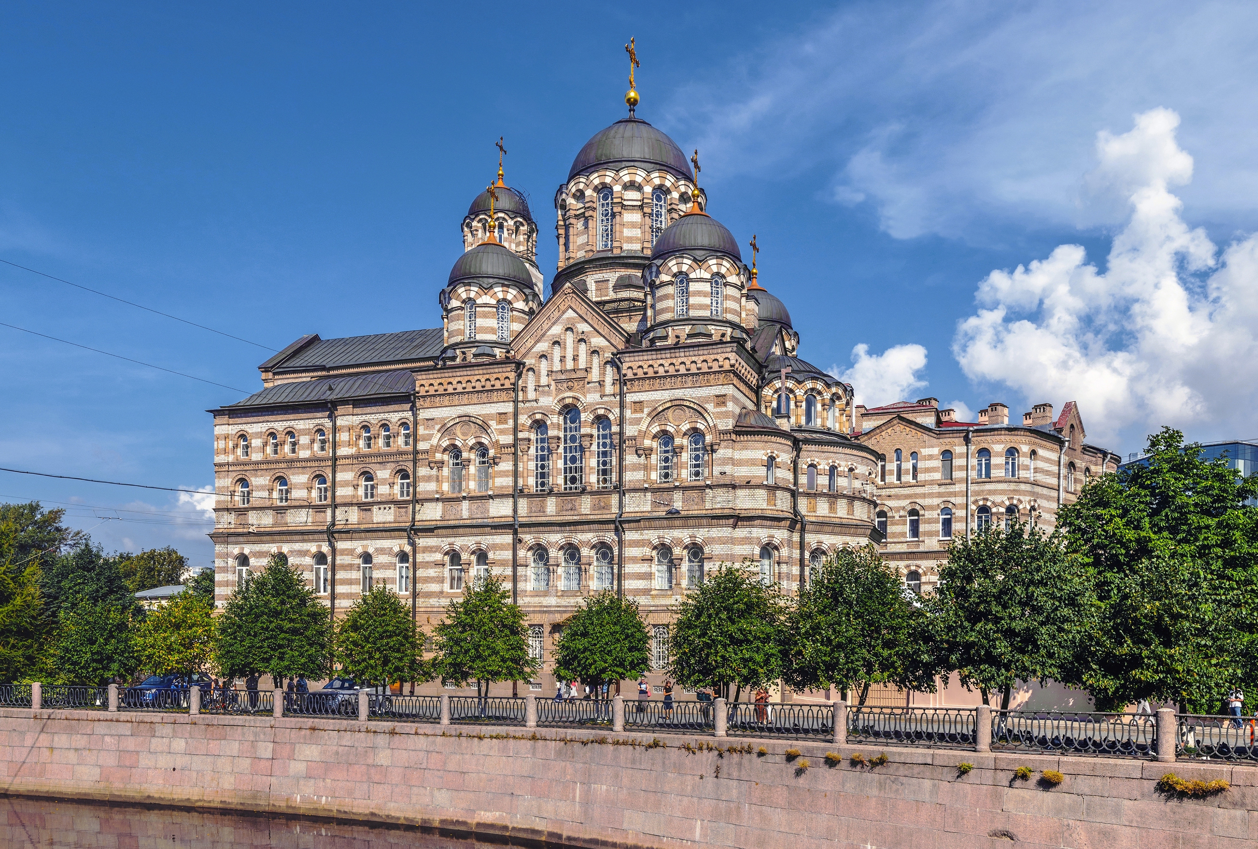 Convent of Saint John of Rila (Ioannovsky) in Saint Petersburg